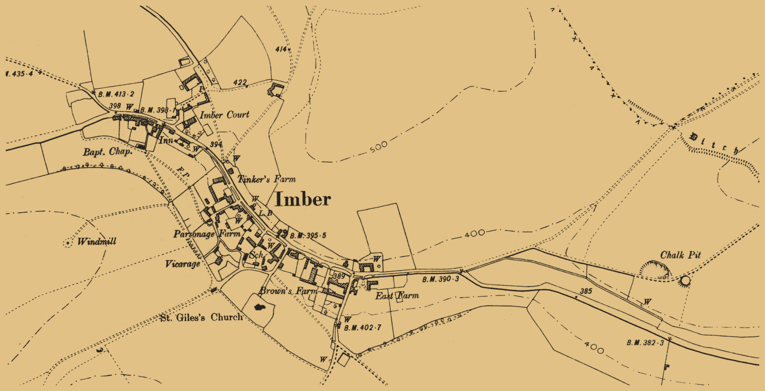 Map of Imber, England, as it existed in 1902